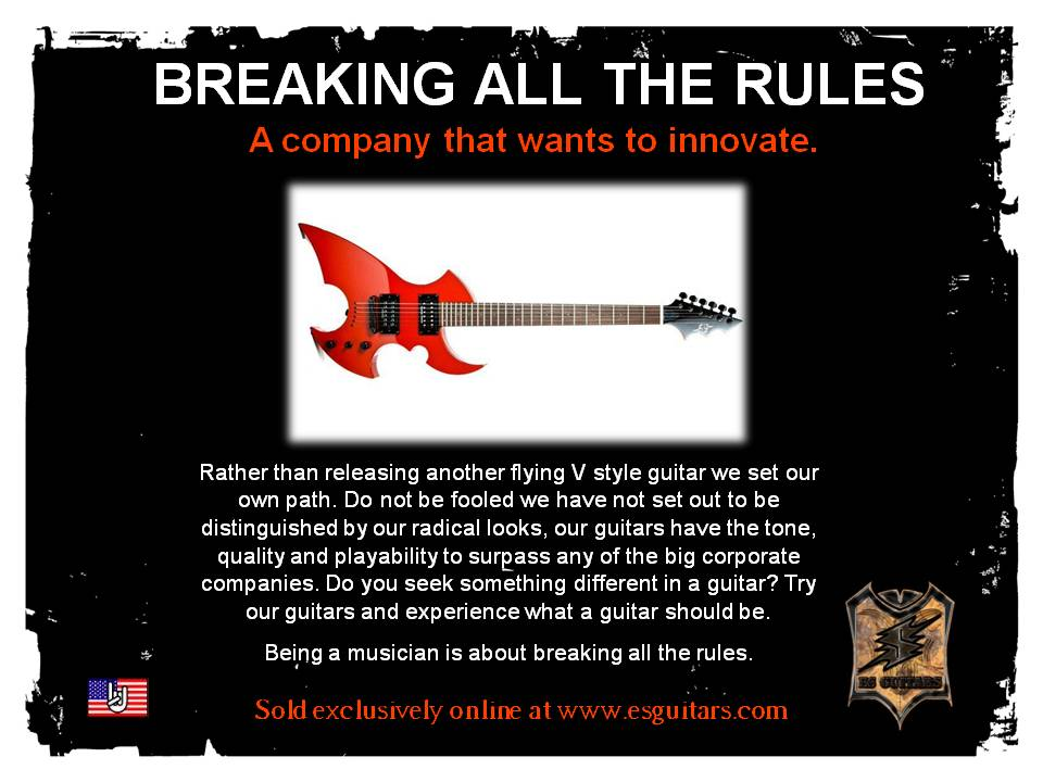 Metal Dagger guitar model